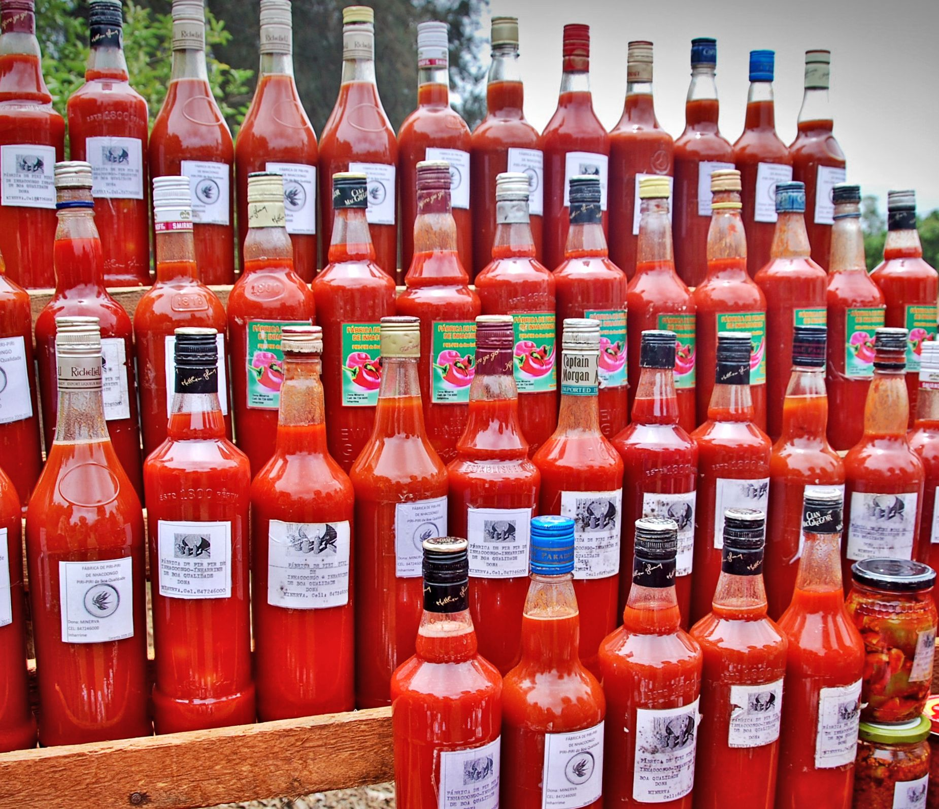 Piri piri sauce is a hot sauce made from crushed chillies, originating in Portugal and especially prevalent in Angola, Namibia, Mozambique and South Africa. This is an image of food from Mozambique